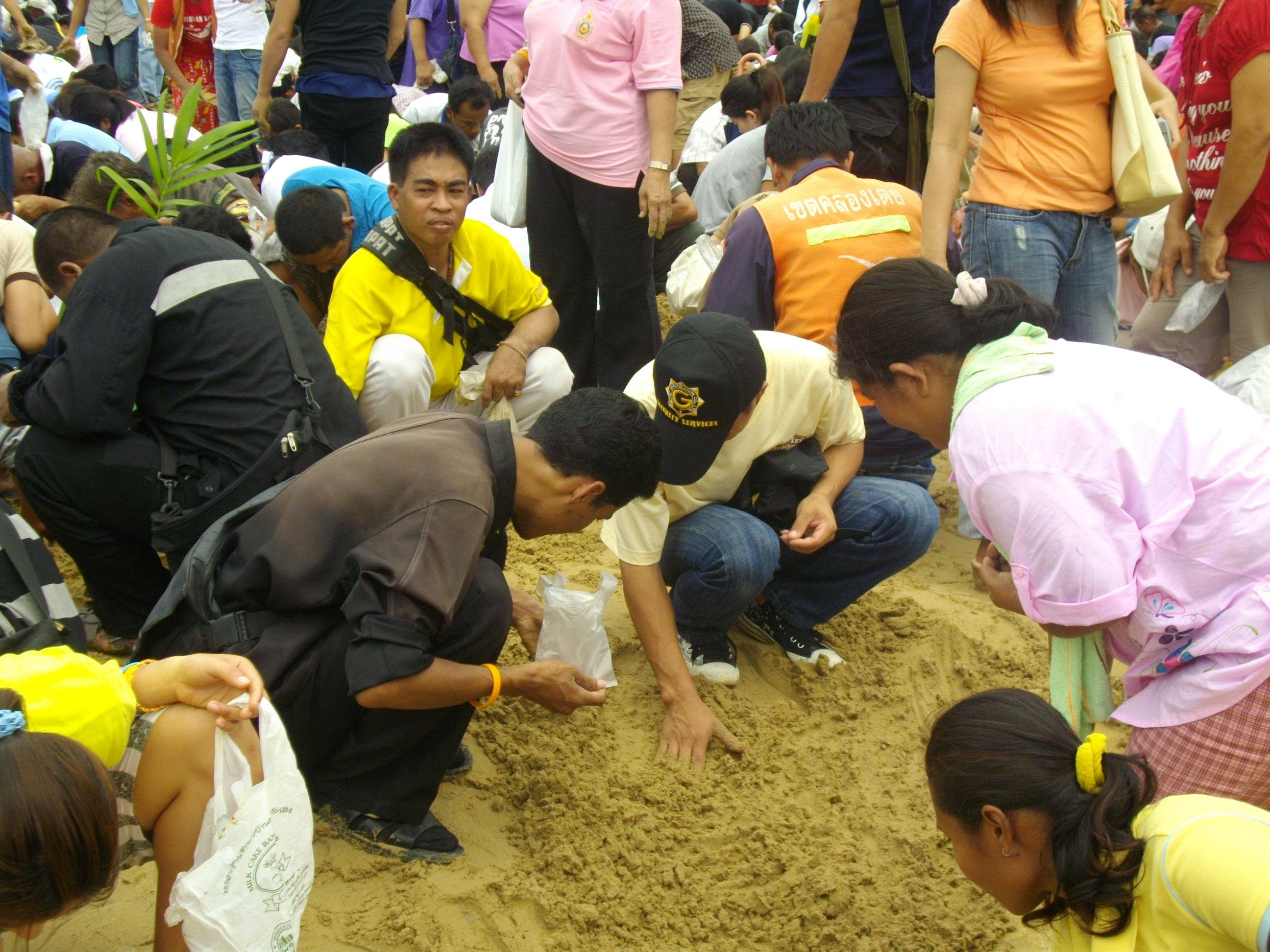 Thai people find the rice after the Royal Ploughing Ceremony at Sanam Luang, Bangkok, 11 May 2009.